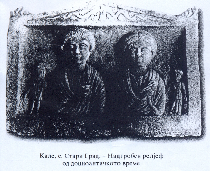 Tombstone from Kale archaeological site near Stari Grad, Veles region, Macedonia